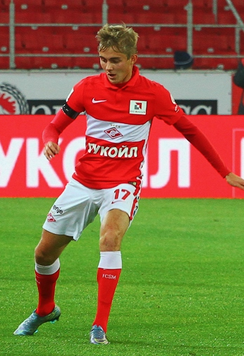 Aleksandr Zuev